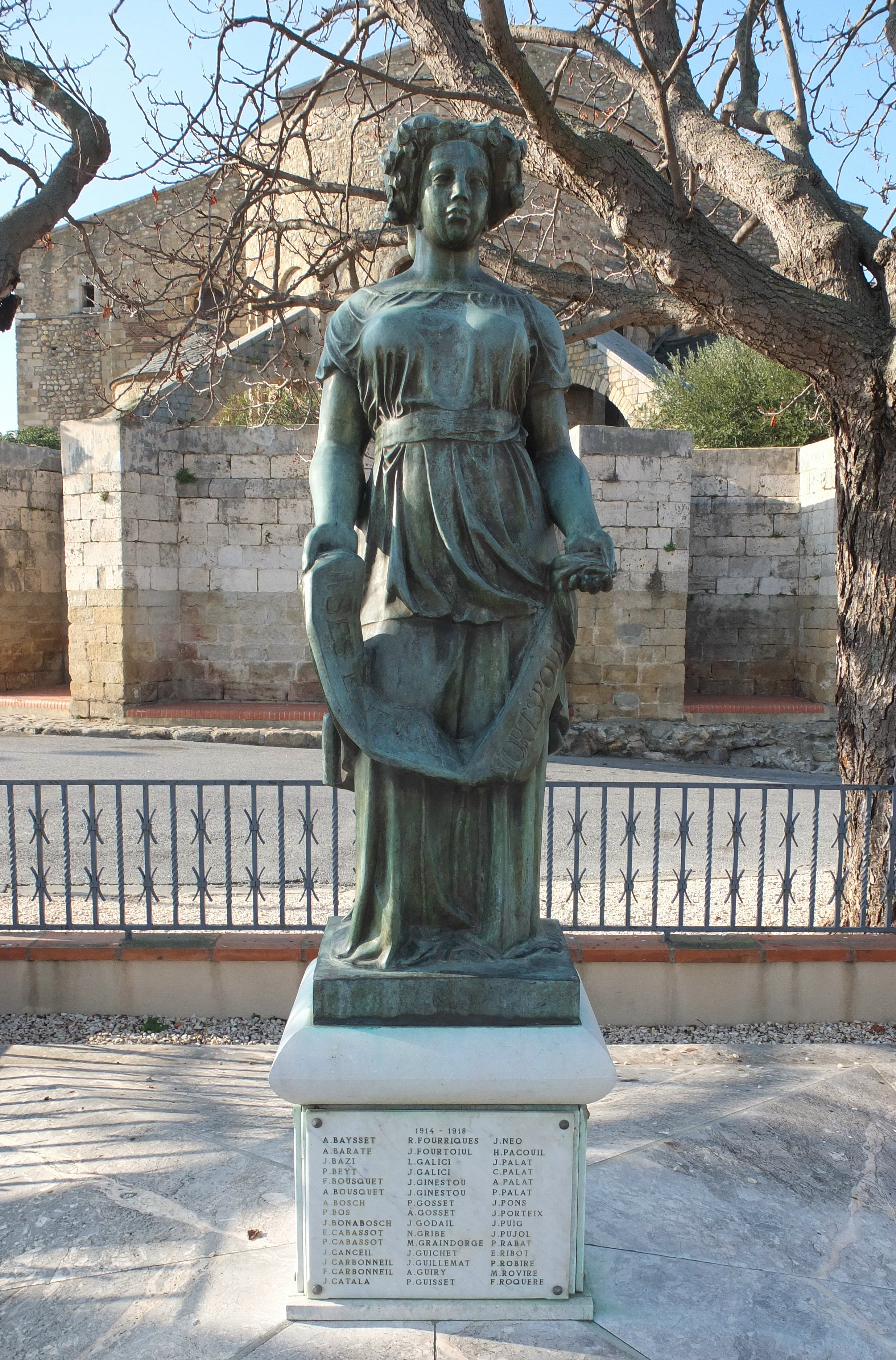 War memorial by Aristide Maillol (Pomone à la tunique), behind the cathedral Sainte-Eulalie-et-Sainte-Julie in Elne, France